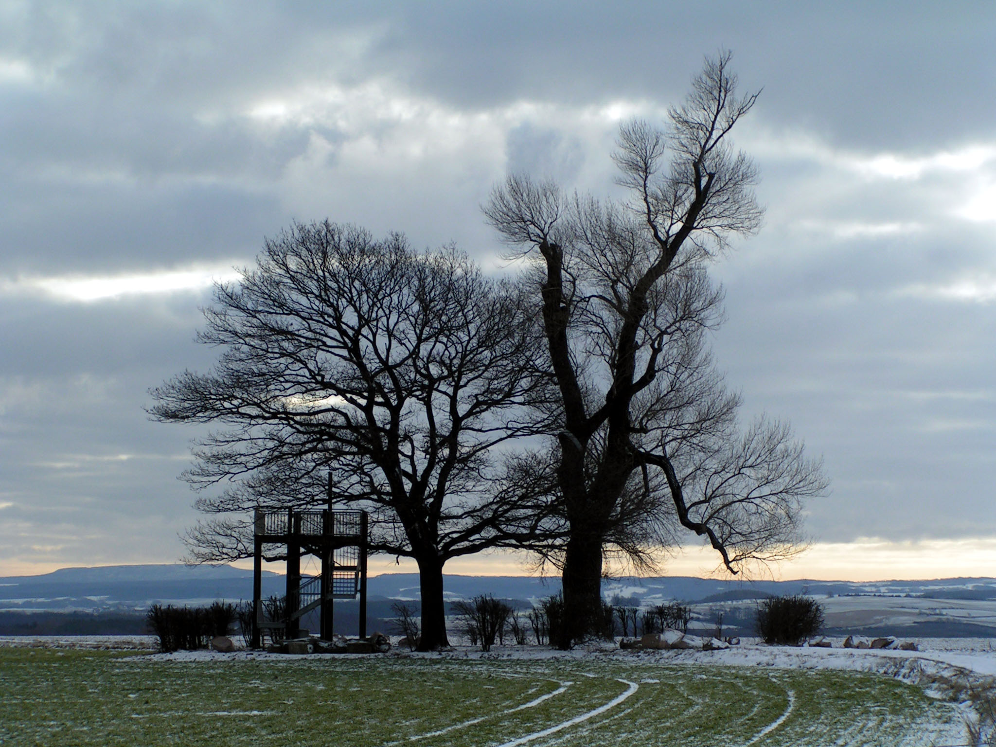 The tree "Babisnauer Pappel" near Dresden, Saxony, Germany